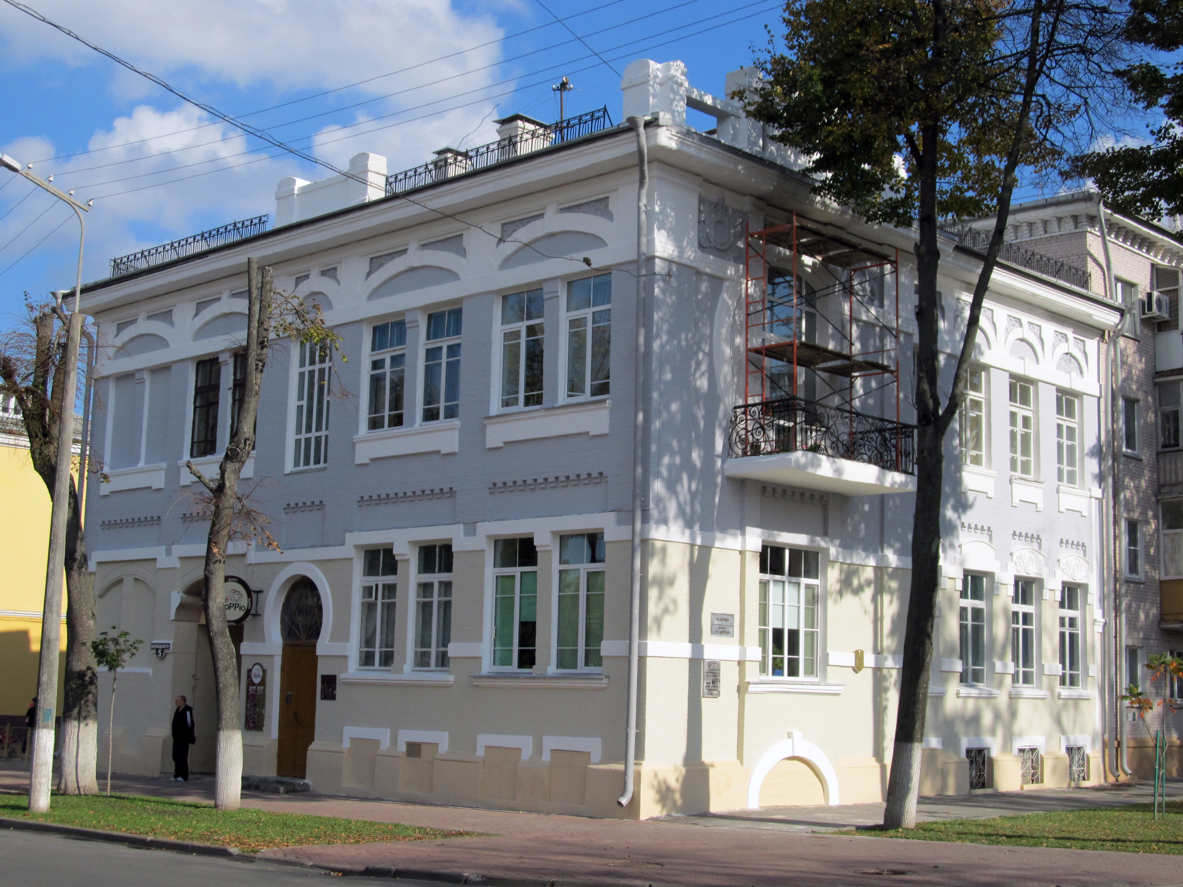 Беларуская (тарашкевіца): Будынак. г. Гомель This is a photo of Belarusian heritage monument. Reference number: 312Г000003 ( WLM)